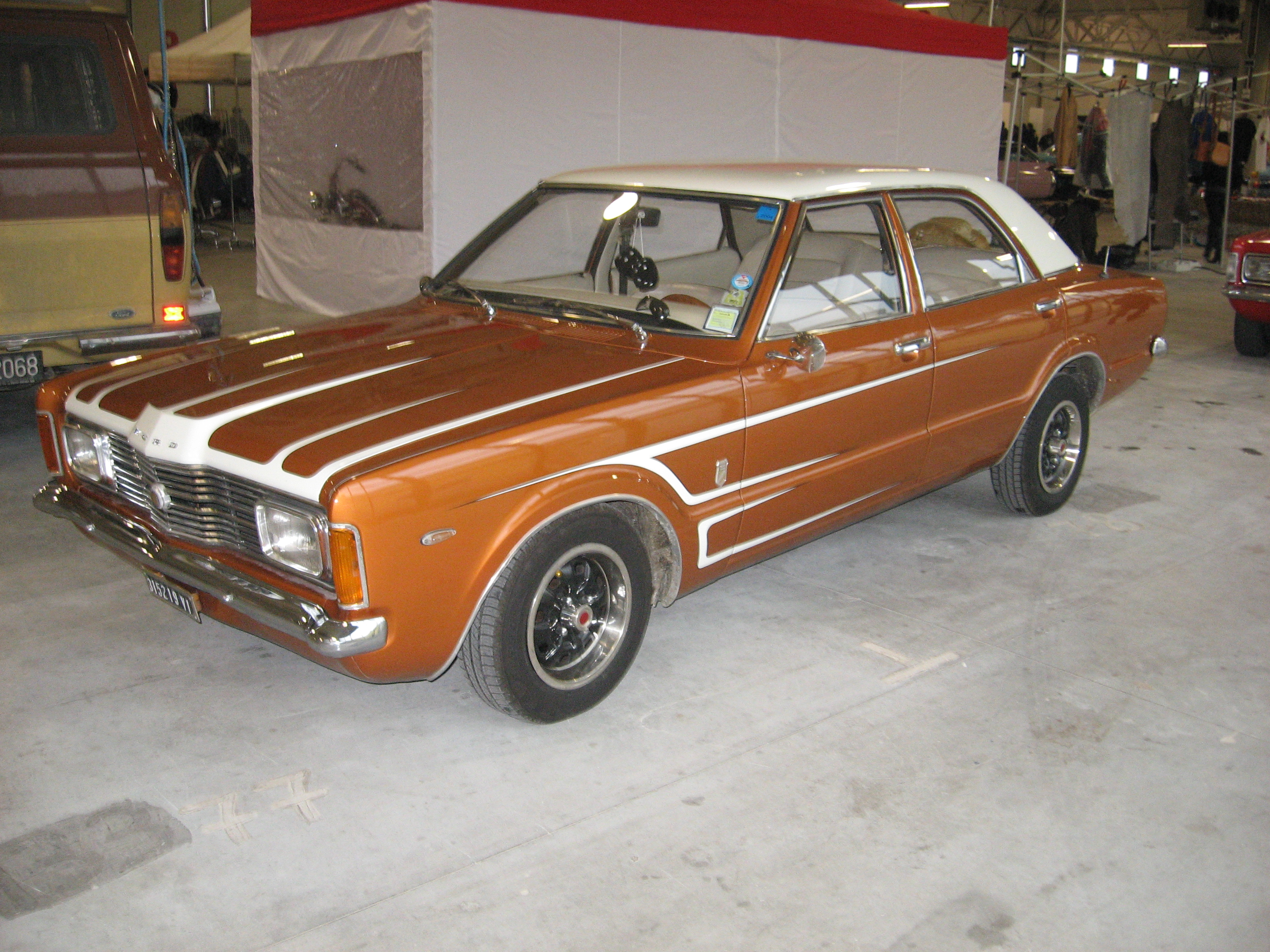 Subject:Ford Taunus XL Author:Luc106 Date:November 24th, 2007 Event:Marke-Retrò 2007 Place/Country: Cesena (FC), Italy I release all rights in the public domain.